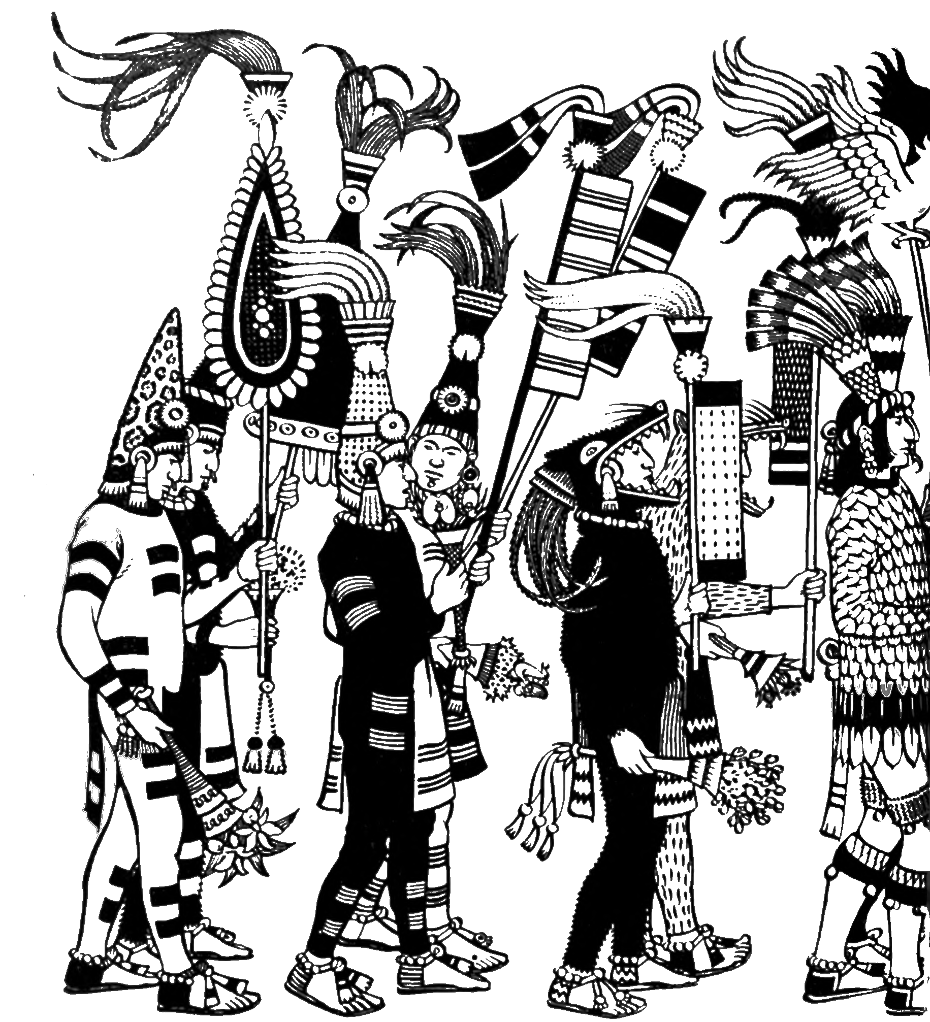 Aztec Caciques coming to the emperor